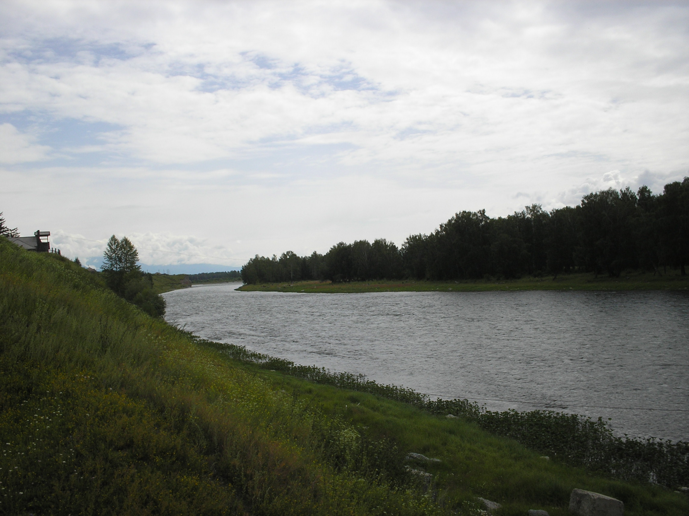 Koksa River in Ust-Koksa (Altai Republic)